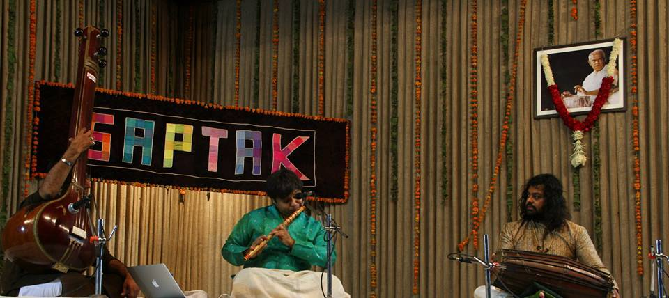 Shashank performing at the famous Saptak Festival, Ahmedabad